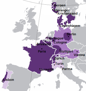 Pronunciation of r in Europe